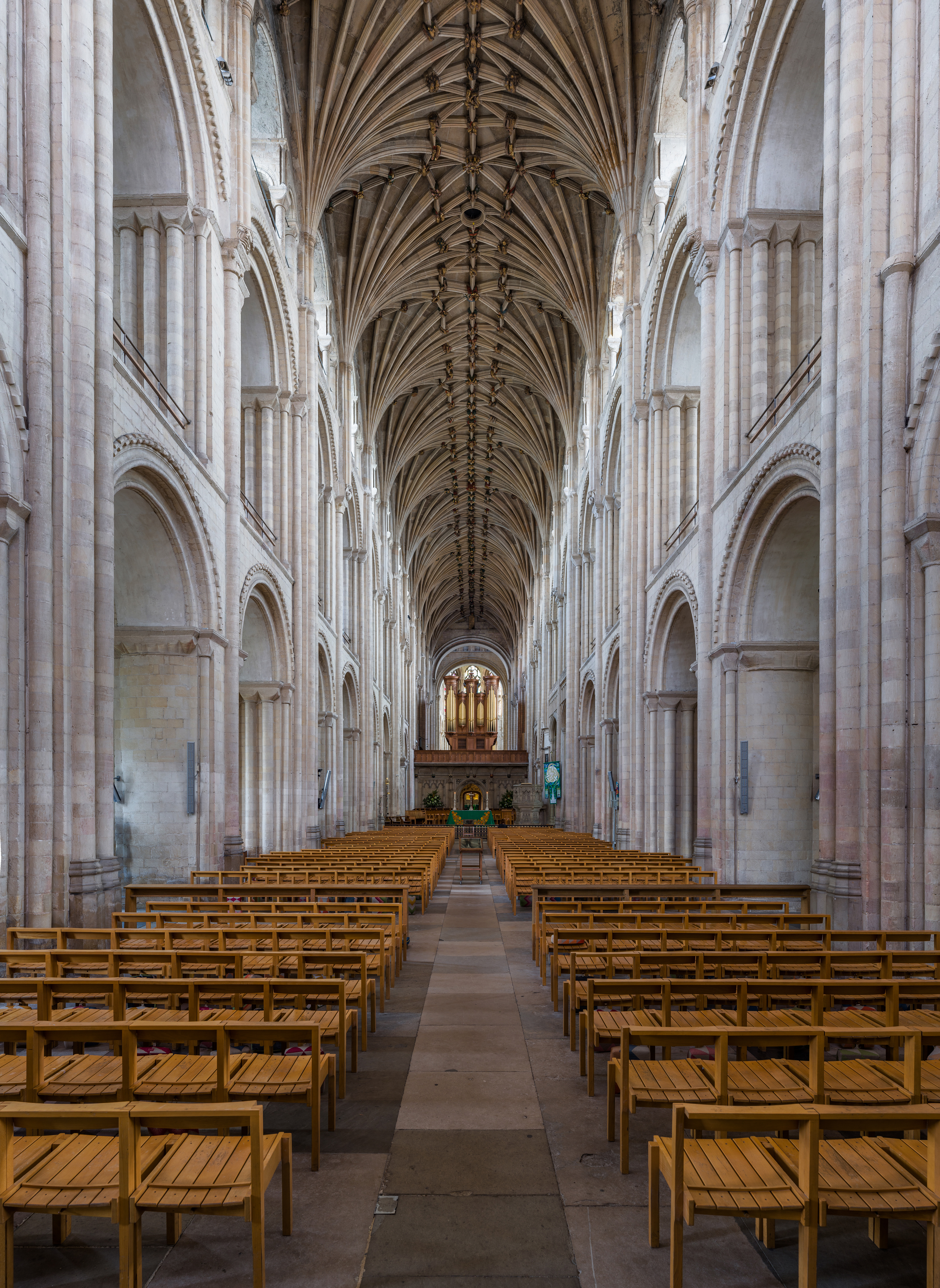 The view looking east down the nave of Norwich Cathedral in Norfolk, England.